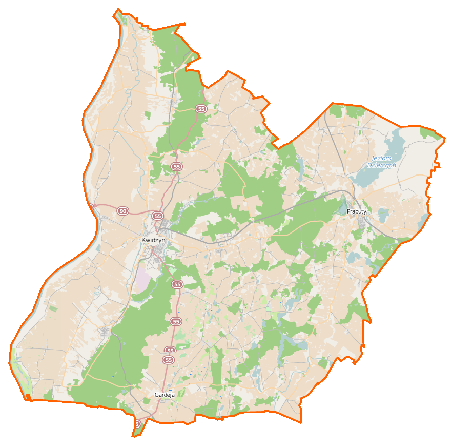 Map of Powiat kwidzyński, Poland This map of Powiat kwidzyński was created from OpenStreetMap project data, collected by the community. This map may be incomplete, and may contain errors. Don't rely solely on it for navigation.